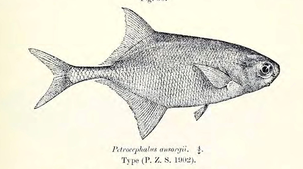 Petrocephalus ansorgii Boulenger, 1903